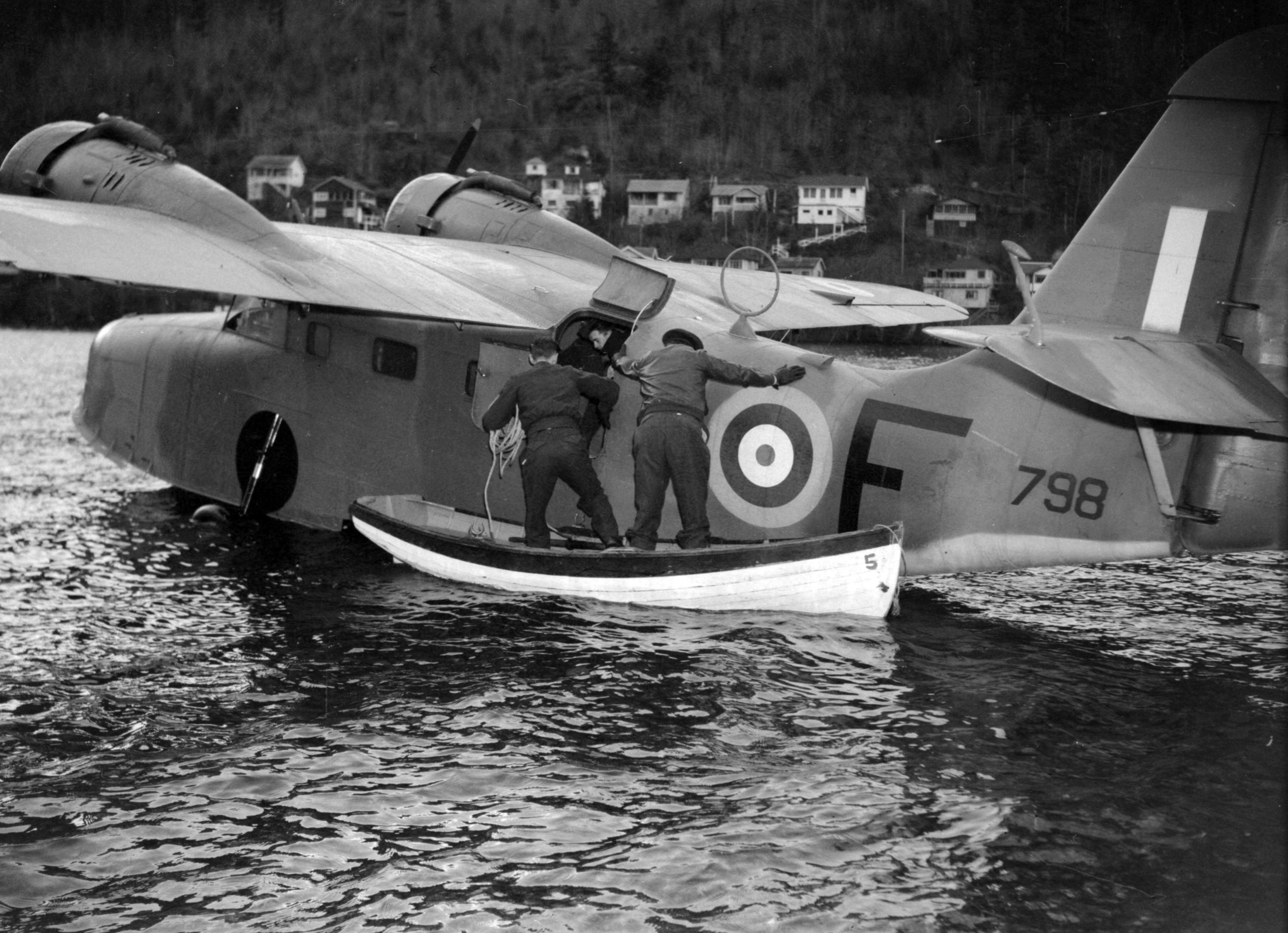 Grumman Goose #798 of RCAF. Original caption: Men in a boat pushing on the side of a military seaplane